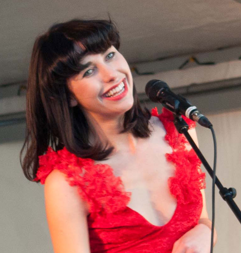 Anais photography Auckland concert Kimbra